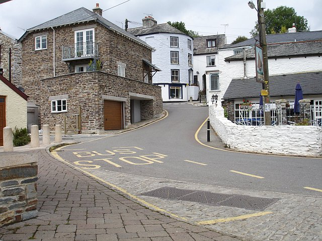 Calstock. Looking up towards Commercial Road from the quay.